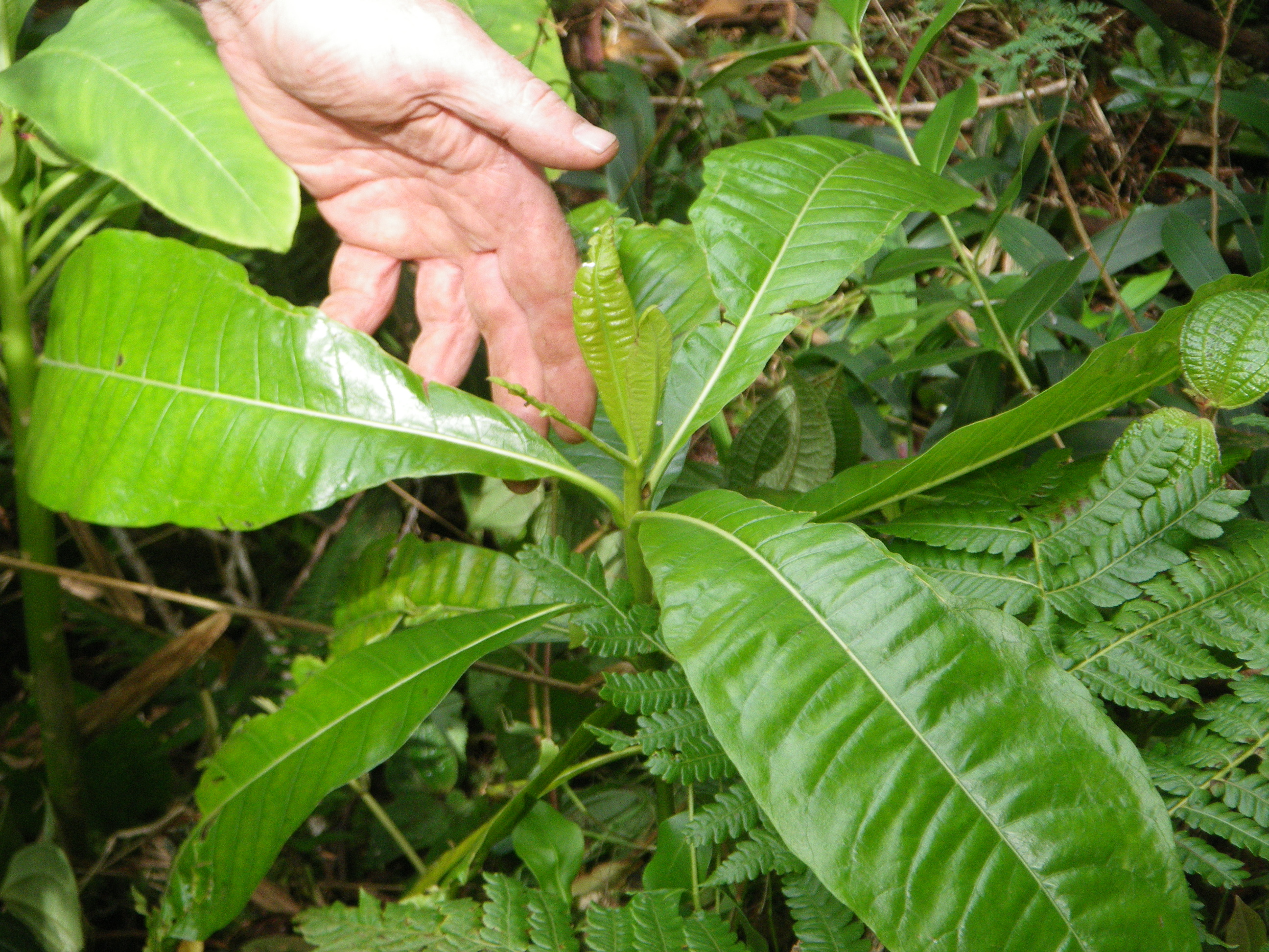 This plant has been identified as a young specimen of Alstonia Macrophylla. The plant is about 50cm tall.